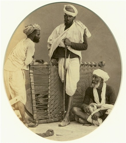 Indian natives posing with a charpai.